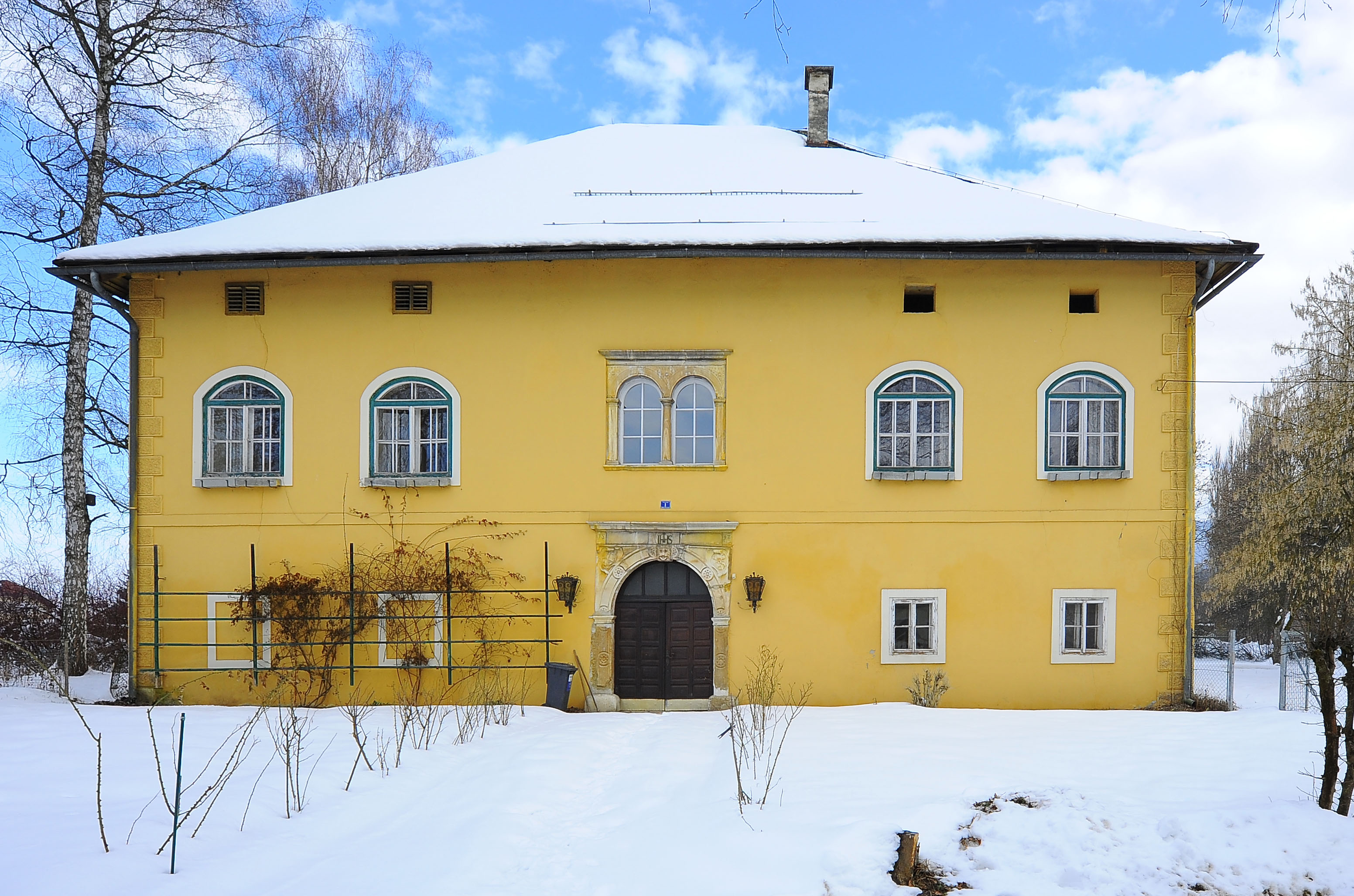 Castle Rosenegg on the Friedrich-Gagern-Street #1 in the municipality Ebenthal in Kärnten, district Klagenfurt-Land, Carinthia, Austria